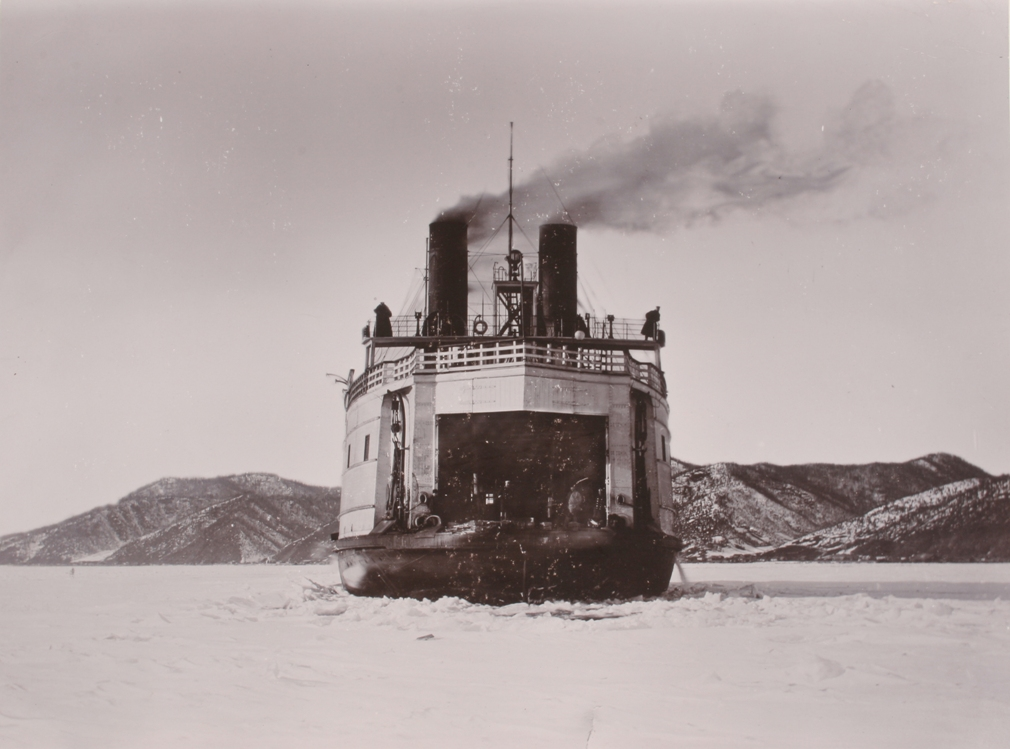 Showing the SS Baikal in the act of breaking ice on lake Baikal, Central Siberia The icebreaking steamer 'Baikal' was built at Walker in 1896. These photographs show it in action on Lake Baikal. Reference: TWAS: DS.SWH/4/PH/6/2 (Copyright) We're happy for you to share this digital image within the spirit of The Commons. Please cite 'Tyne & Wear Archives & Museums' when reusing. Certain restrictions on high quality reproductions and commercial use of the original physical version apply though; if you're unsure please . To purchase a hi-res copy please quoting the title and reference number.